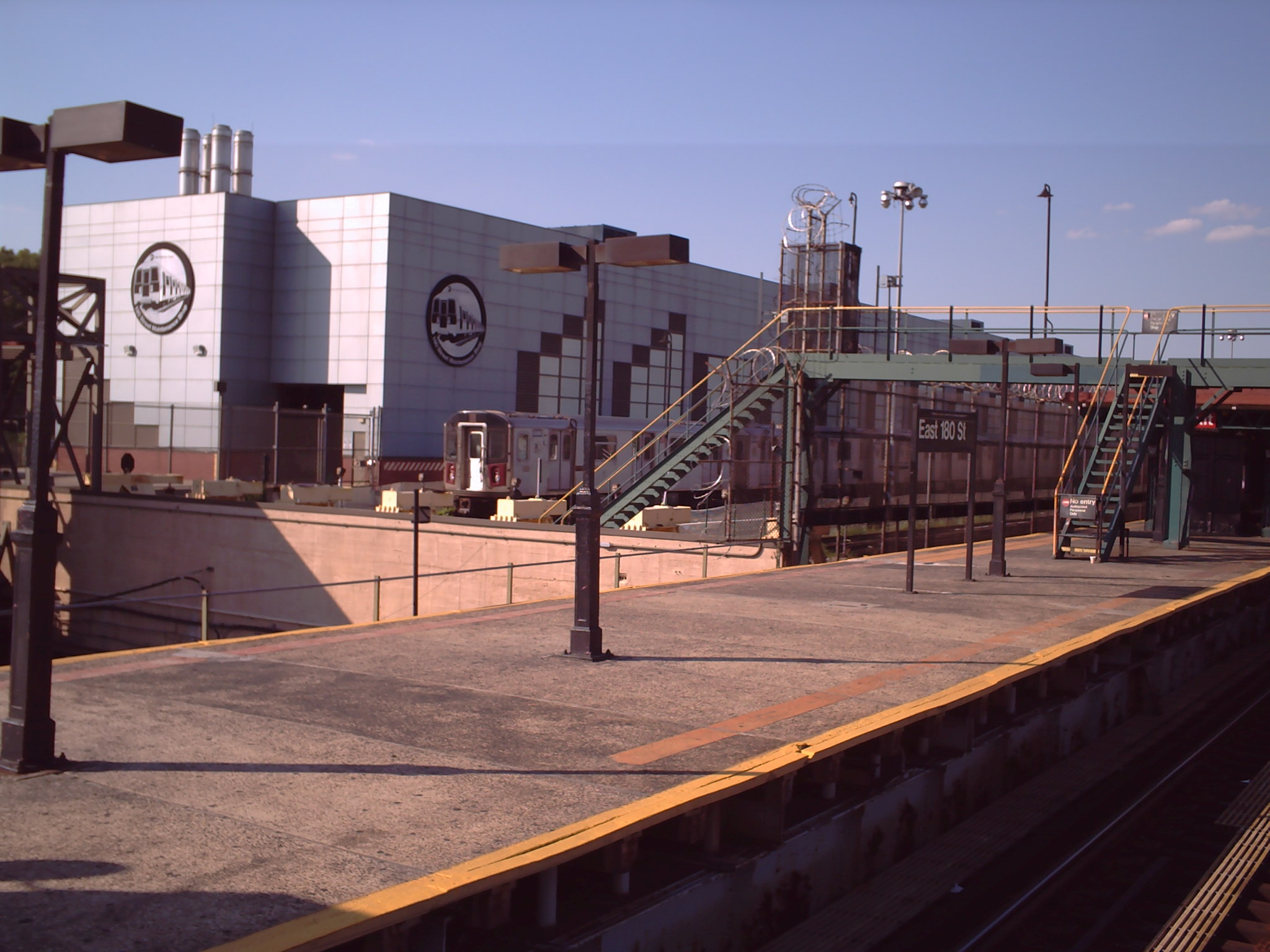 The East 180th Street Yard, and Maintenance/Repair Shop, a part of the IRT White Plains Road Line.